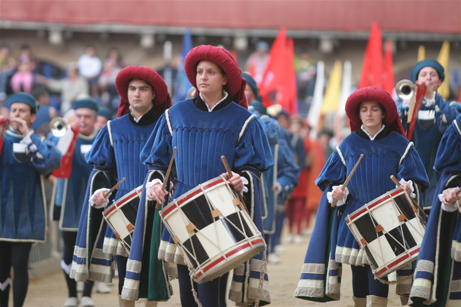 Drums at the Corteo storico